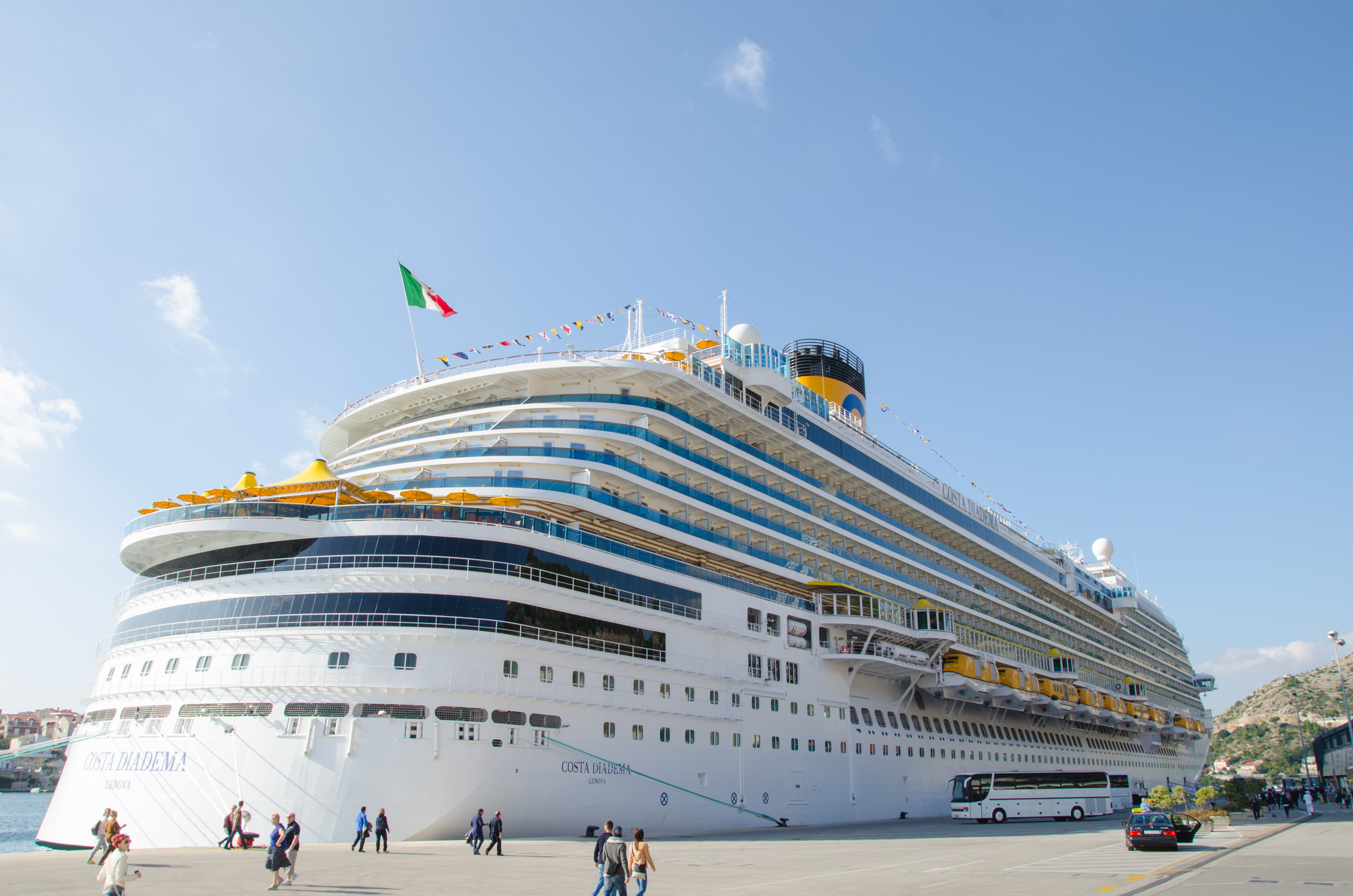 Costa Diadema docked at Dubrovnik port during her vernissage cruise